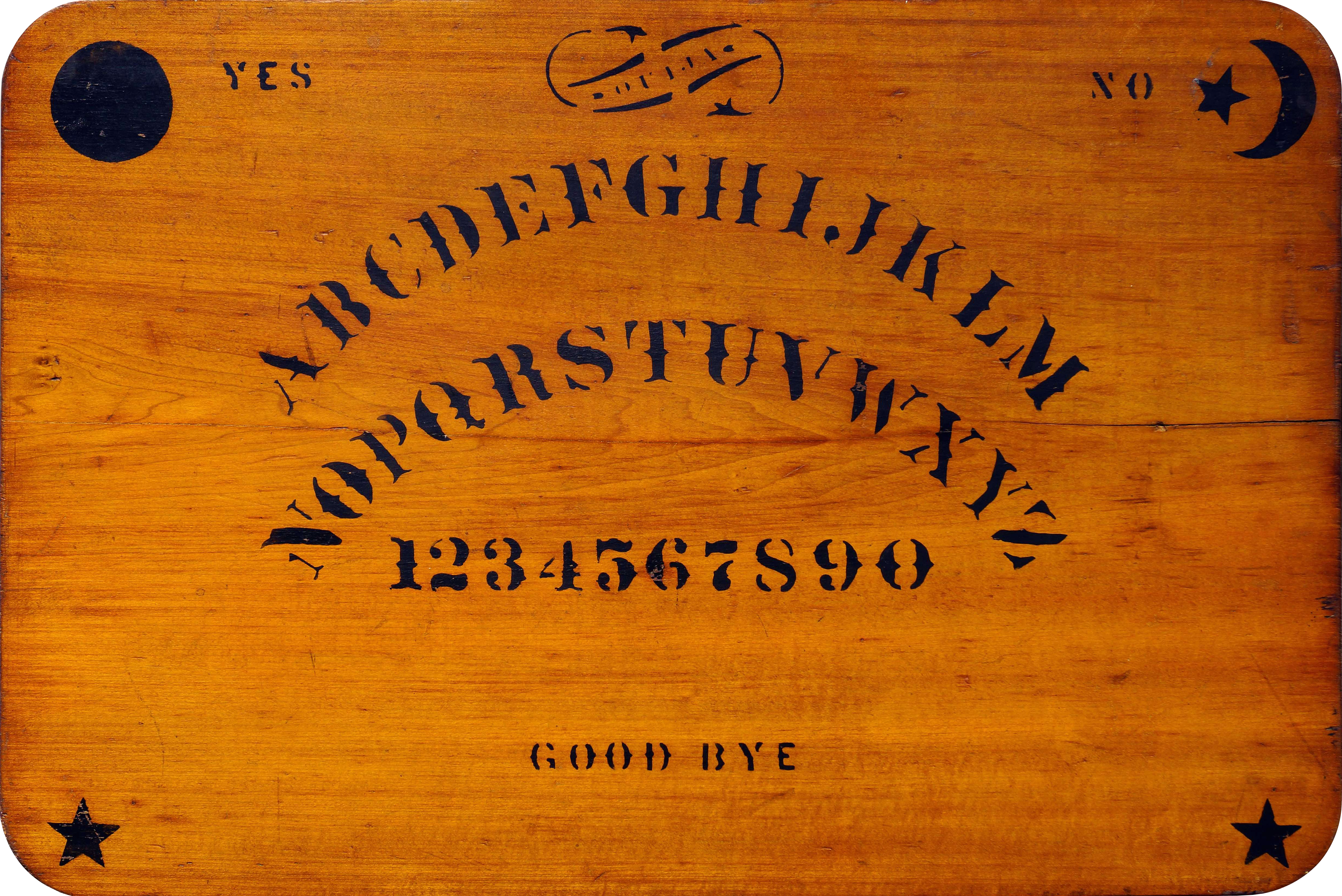 A ouija board manufactured by the Kennard Novelty Company of Baltimore